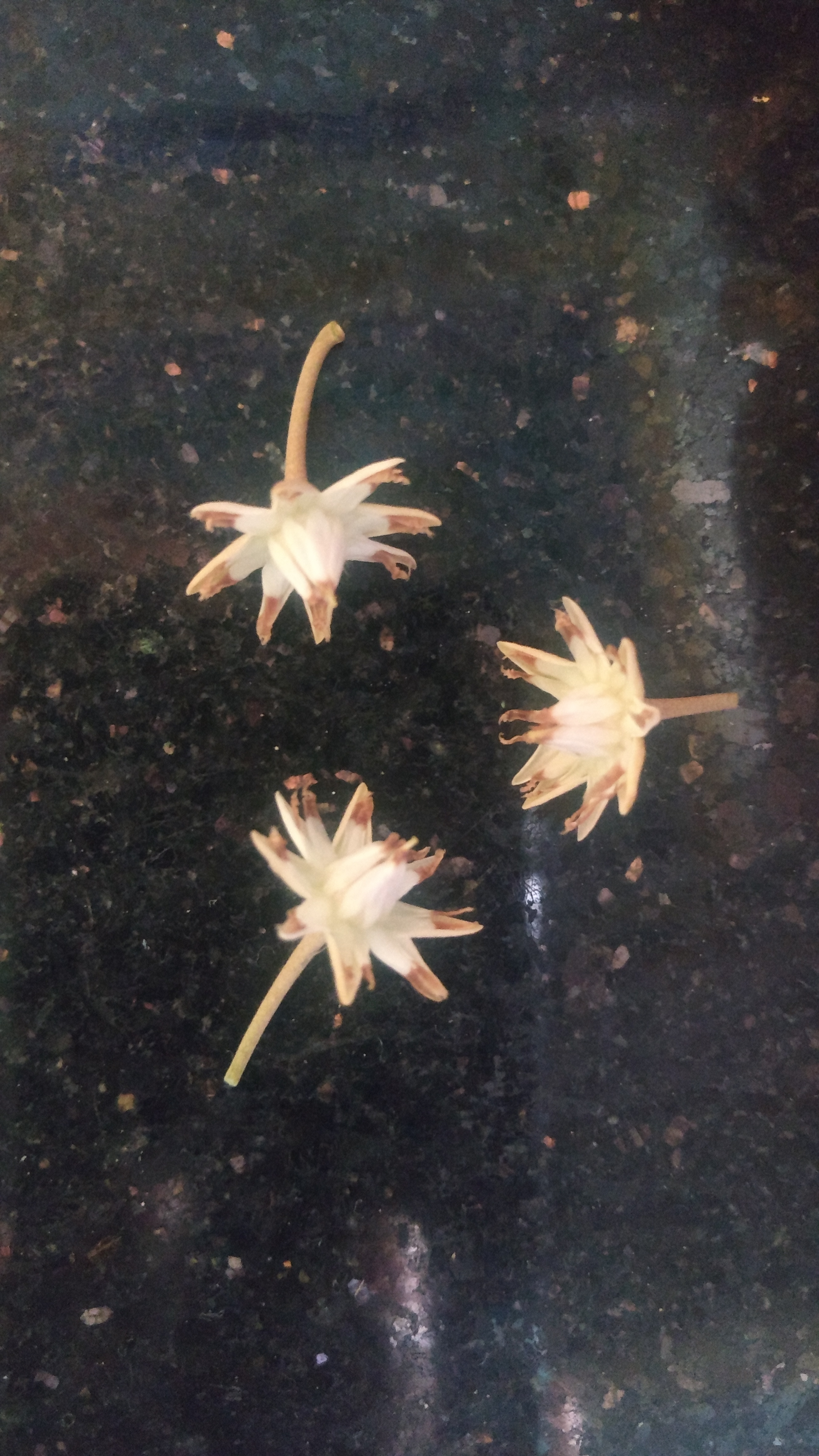 மகிழம் பூ